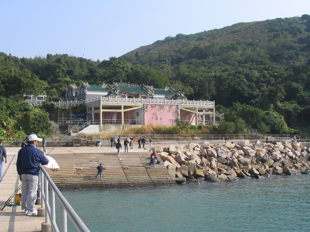 Tin Hau Temple, Joss House Bay (The Big Temple)